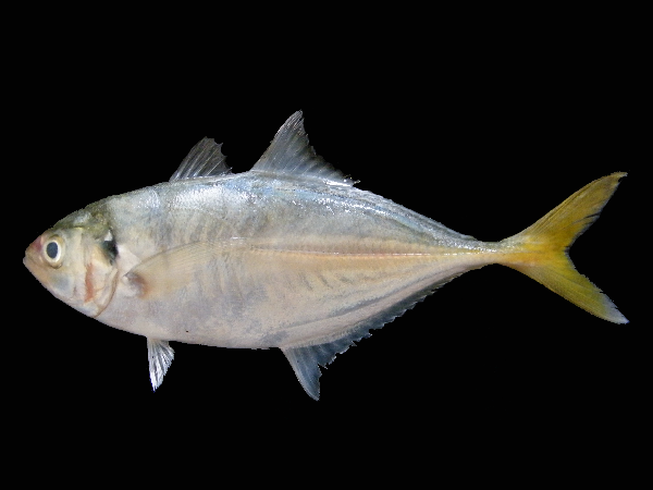 Alepes djedaba bought in Kampuan market, southern Thailand